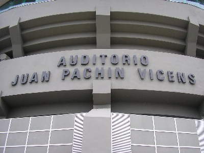 Coliseum/auditorium Pachin Vicens in Ponce, Puerto Rico.